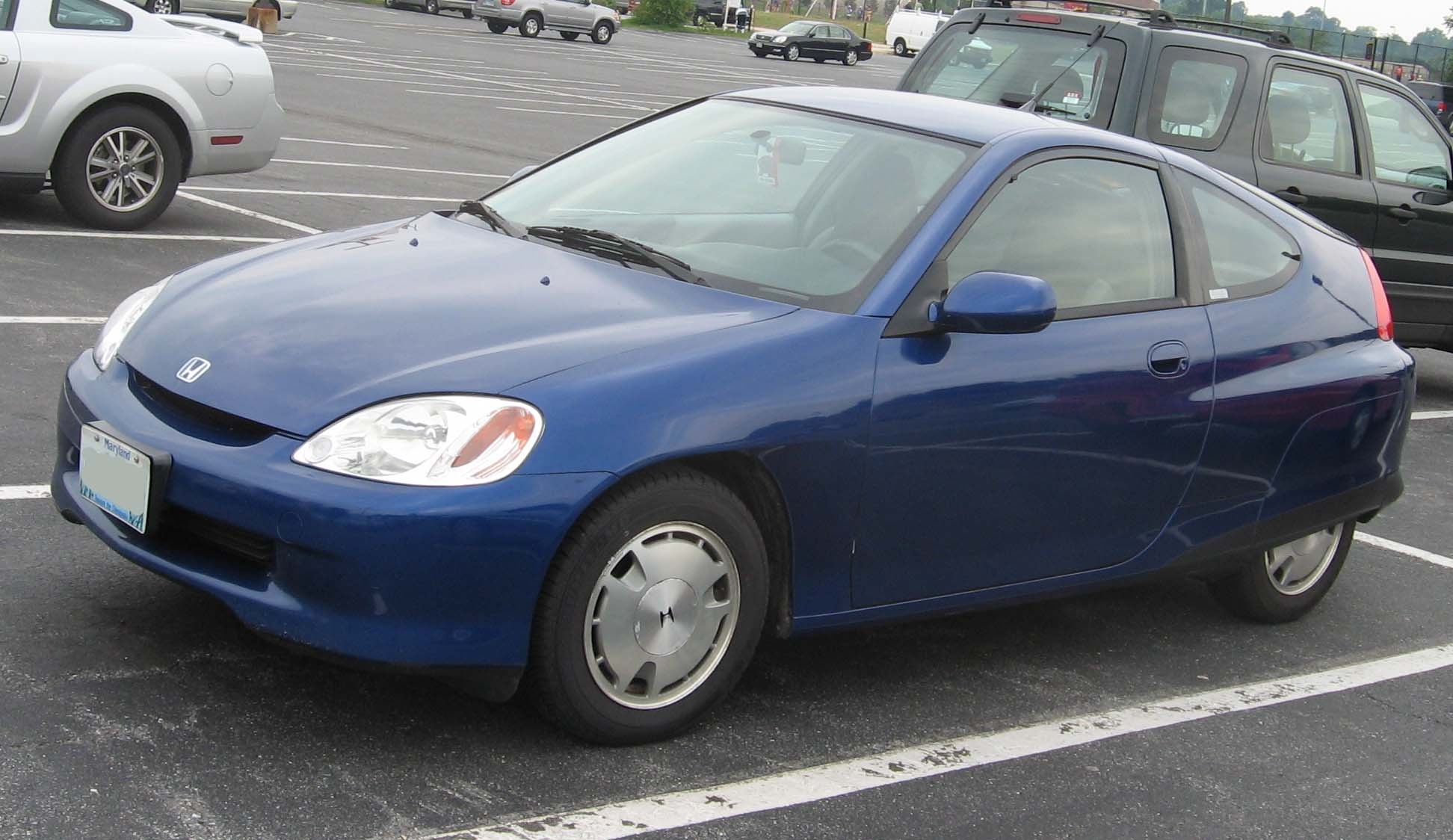 Honda Insight photographed in USA.